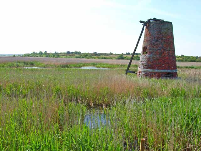 Walberswick Mill. This remote and lonely old windmill standing on the Corporation Marshes is now inaccessible dryshod.